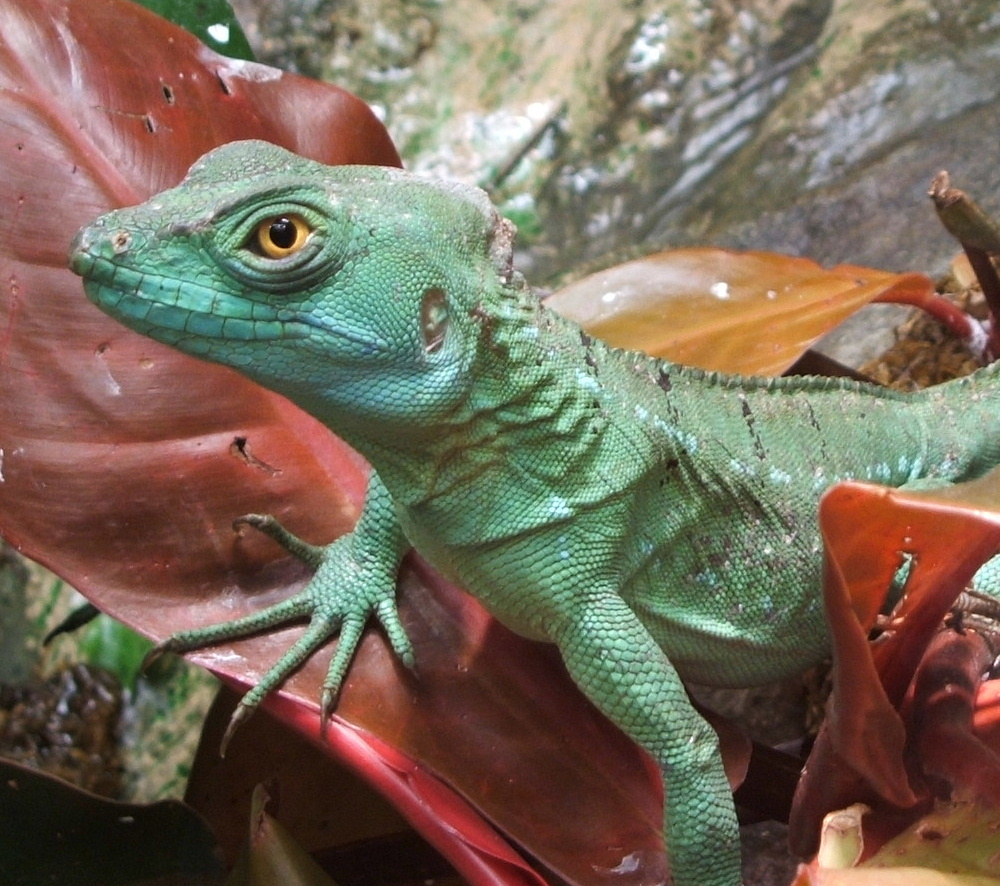 female Plumed basilisk (Basiliscus plumifrons), Boston Museum of Science